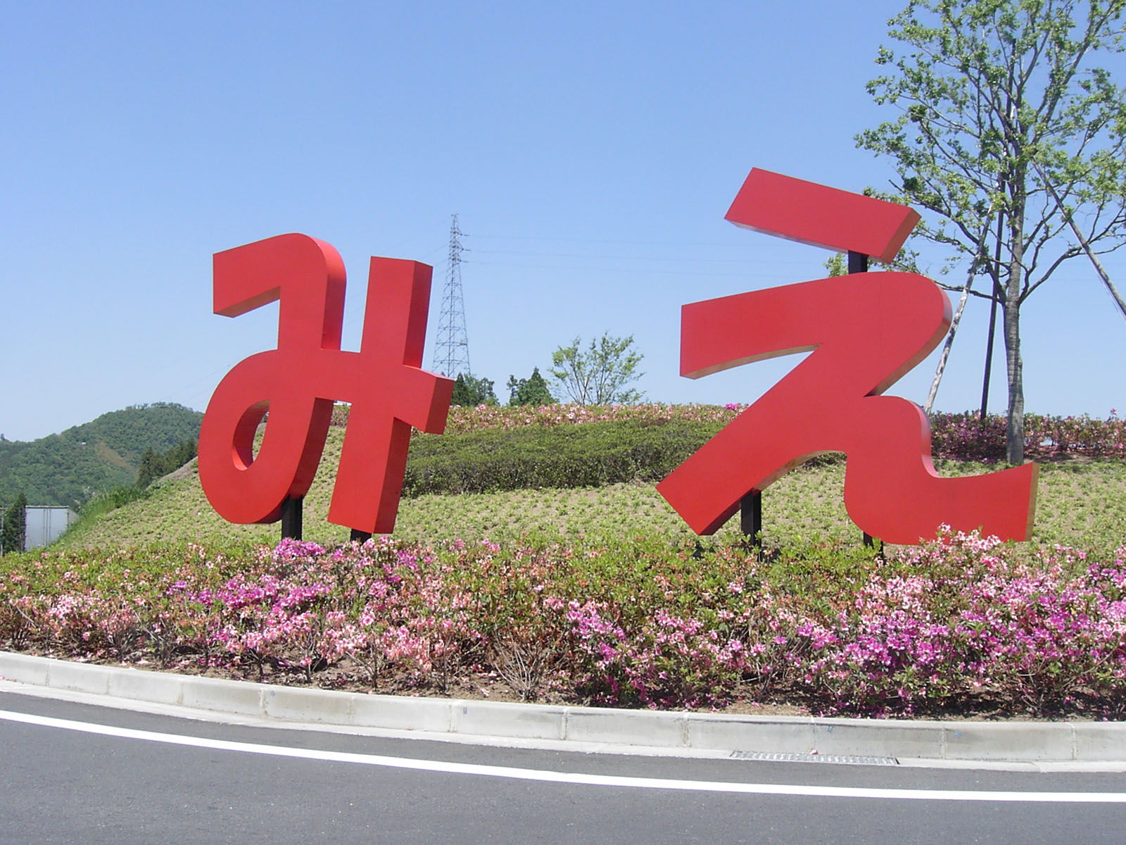 Michi no Eki Mie, Bungo-Ohno, Oita, Japan